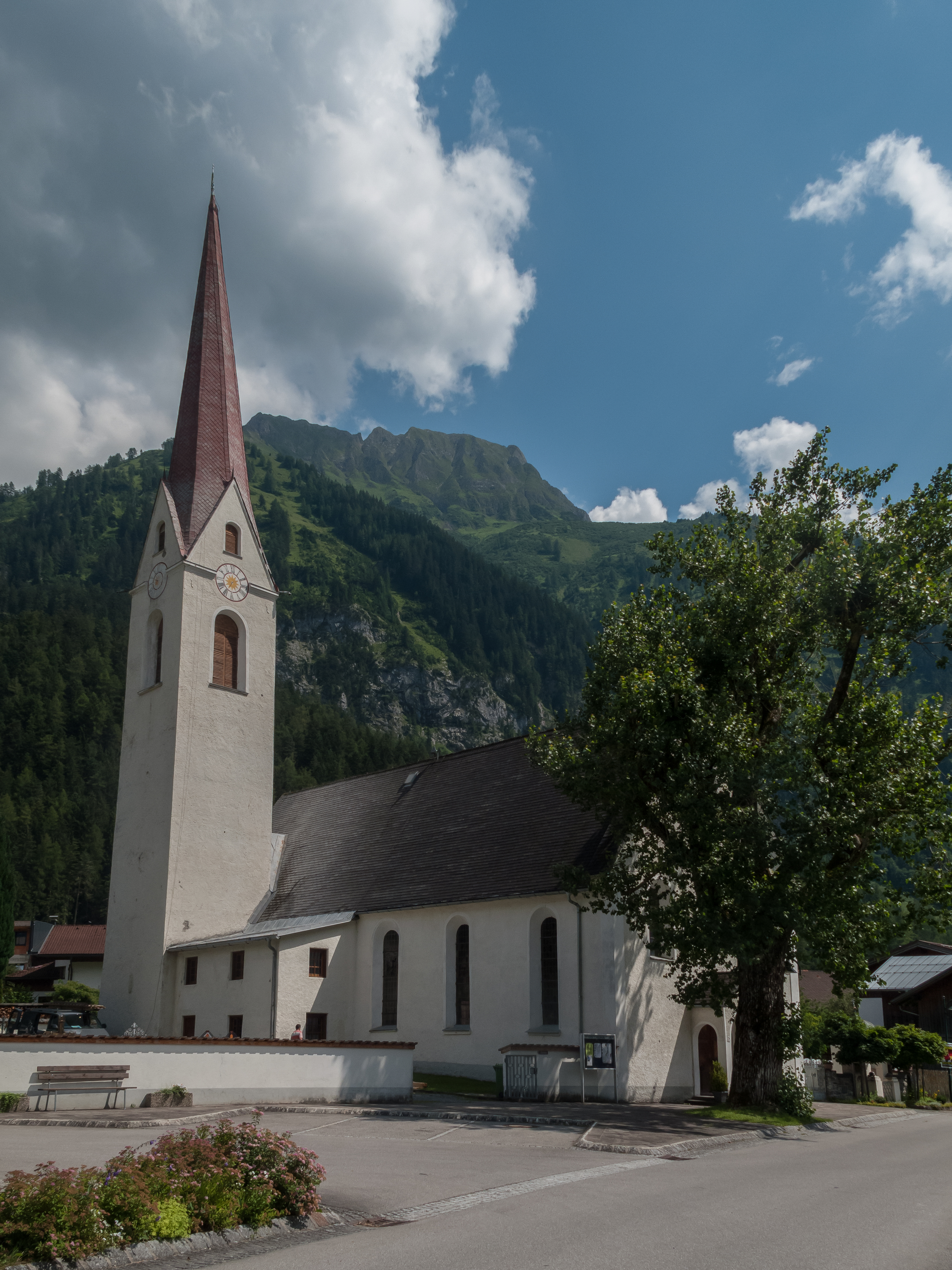 Elmen, church: katholische Pfarrkirche heilige Drei Könige